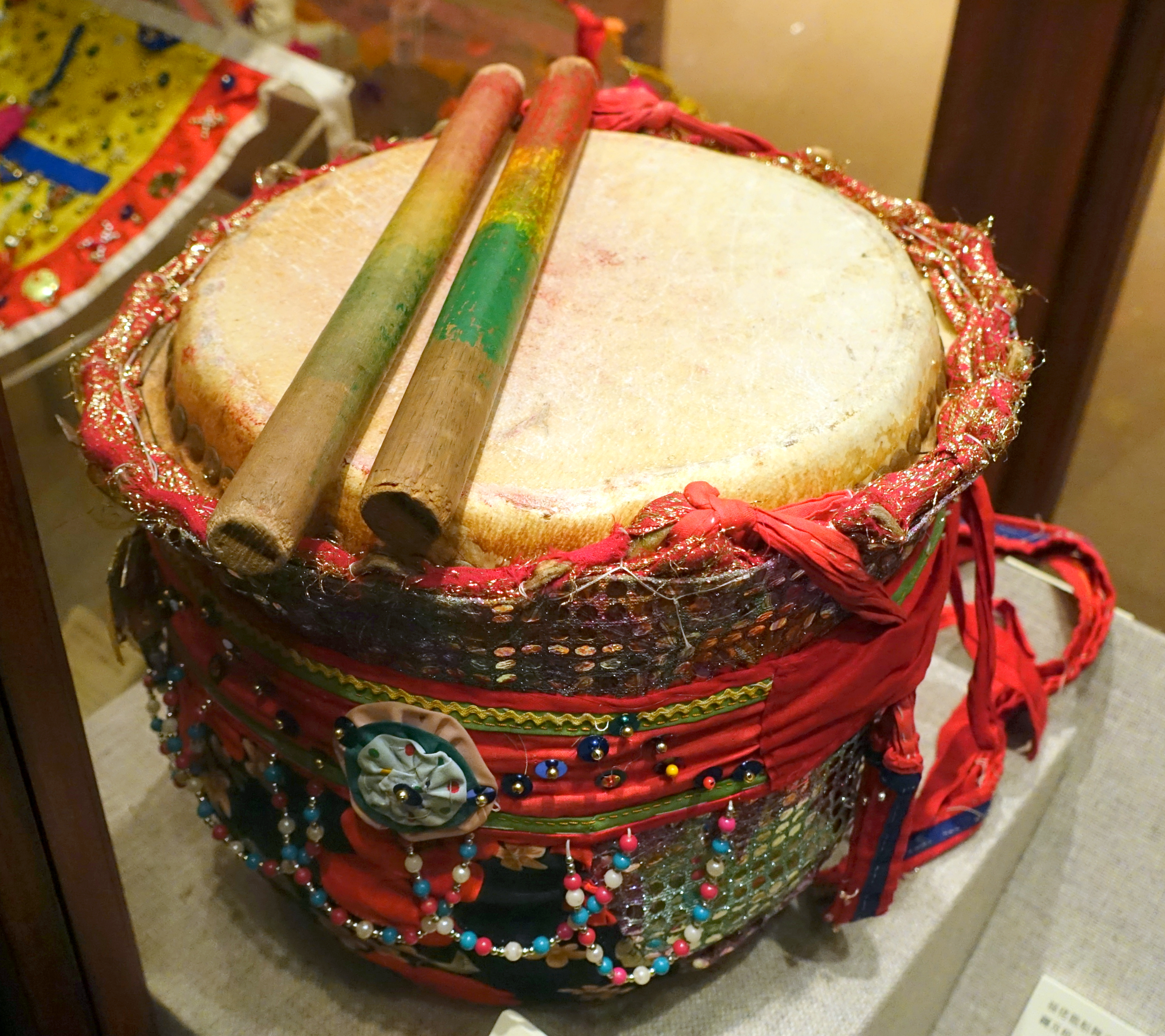 Exhibit in the Hong Kong Museum of History, Hong Kong. This artwork is old enough so that it is in the public domain.